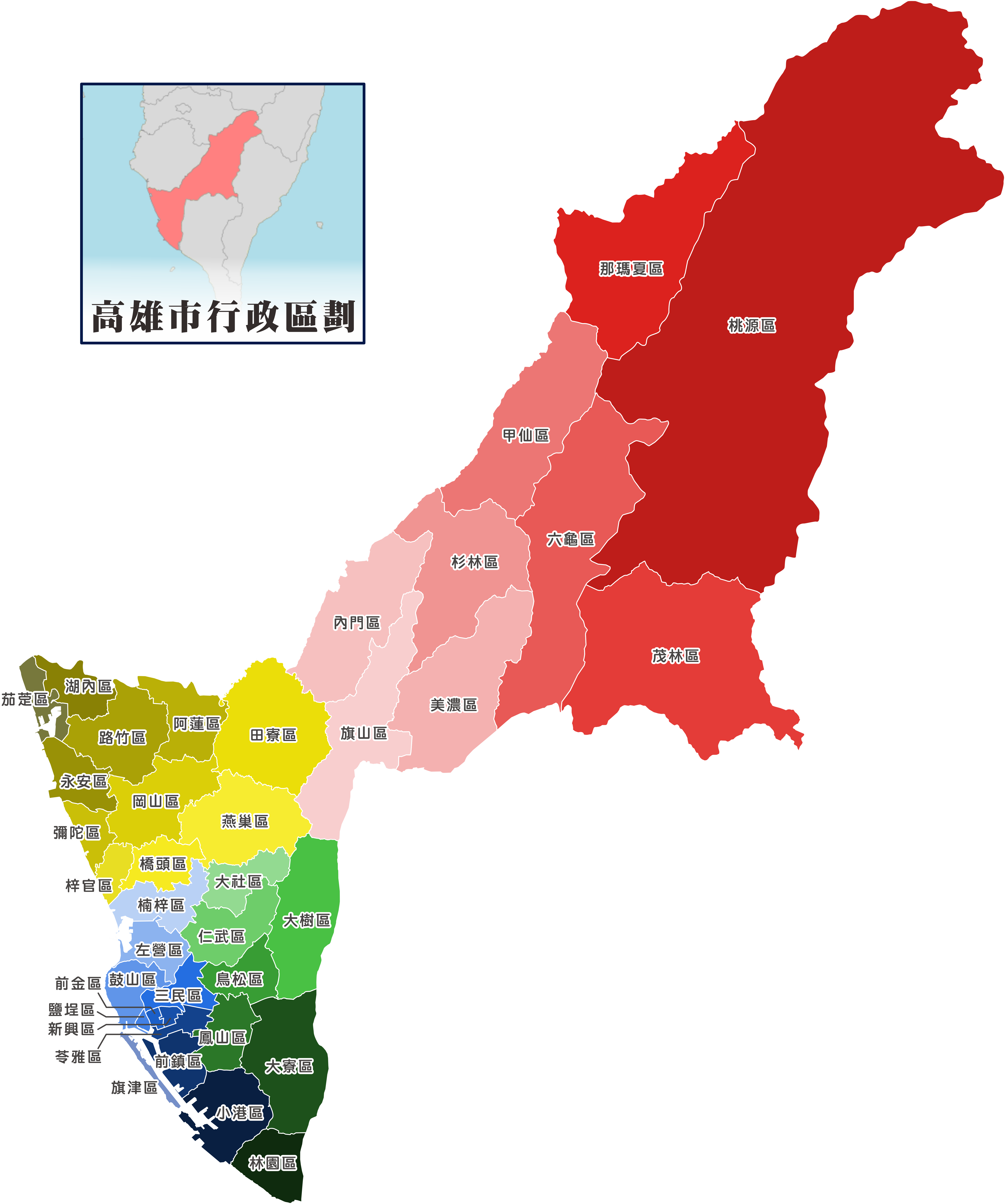 Kaohsiung